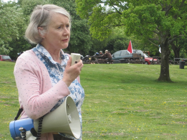 Marion Shoard speaking at a rally to protest the Forestry Commission's sale of woodlands, Sussex, 2011